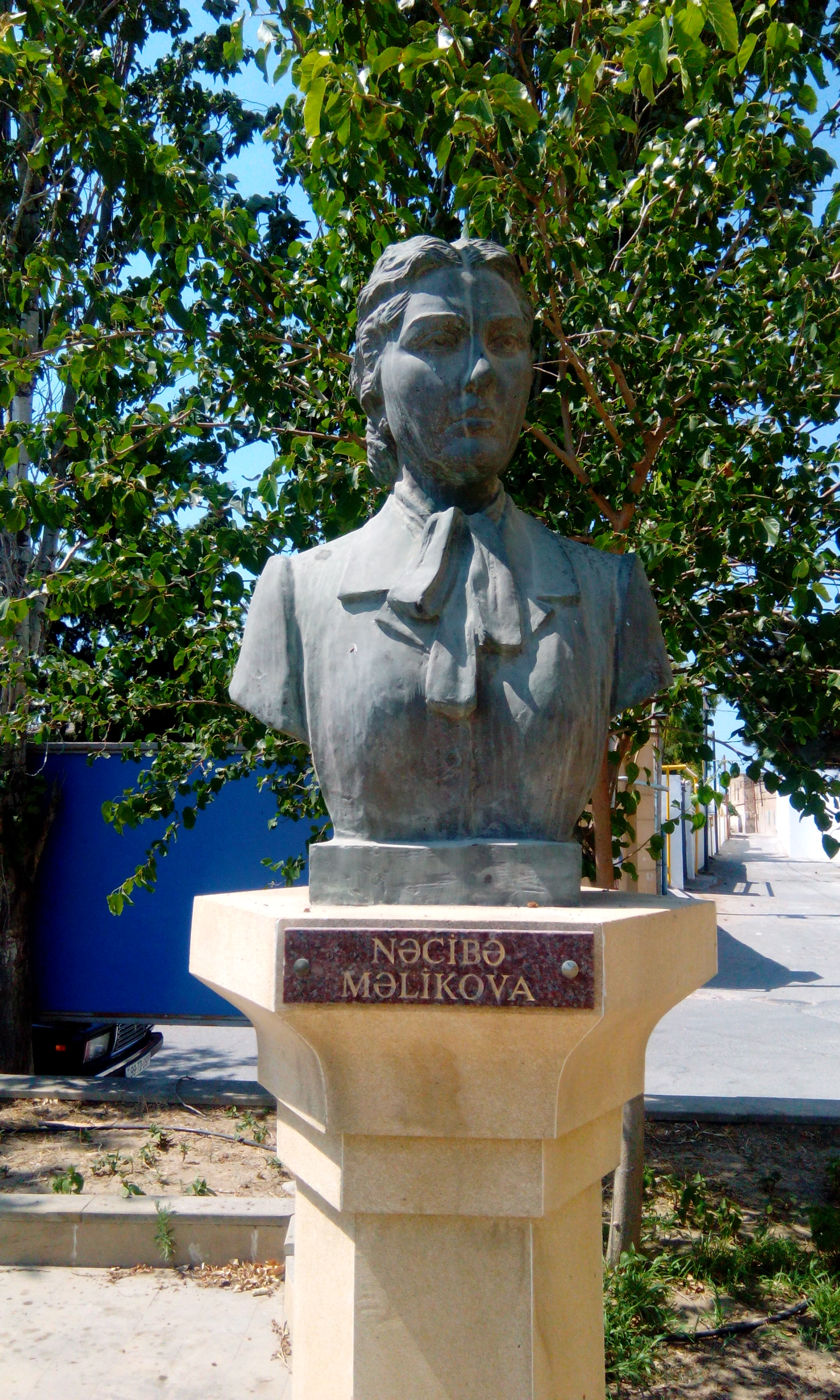 Bust of Azerbaijani actress Najiba Malikova in Buzovna, Azerbaijan.